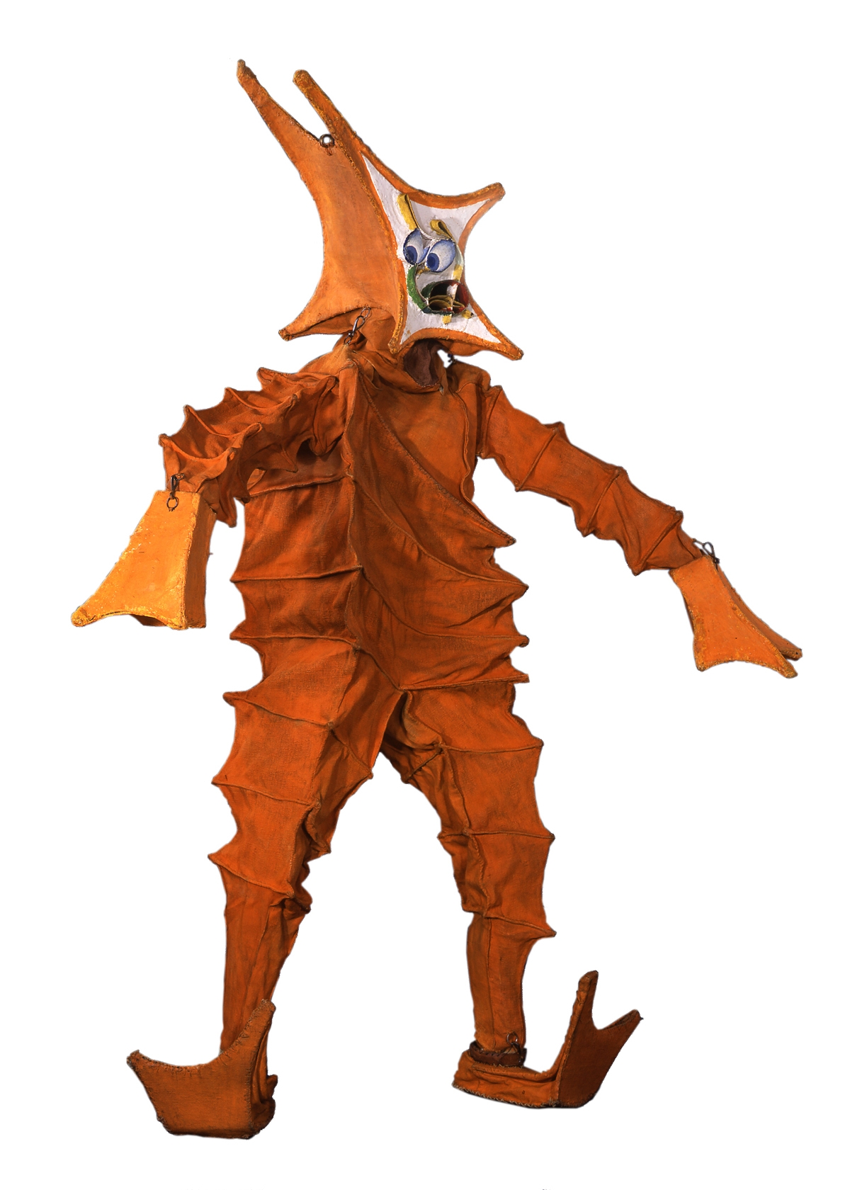 Maskenfigur "Springvieh" A Lavinia Schulz and Walter Holdt designed these in the 1920s From MK&G COLLECTION ONLINE